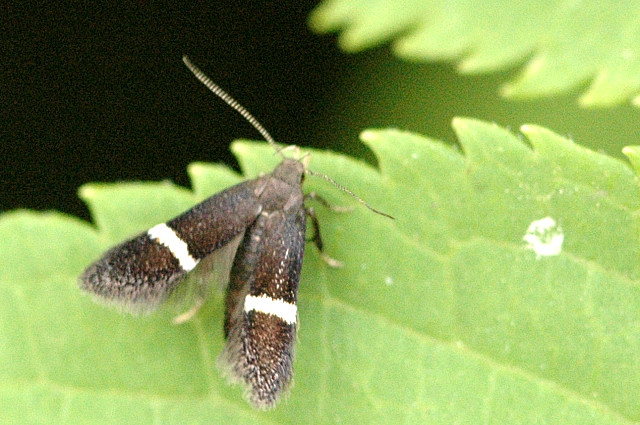 Picture taken in Commanster, Belgian High Ardennes . Species: Syncopacma larseniella